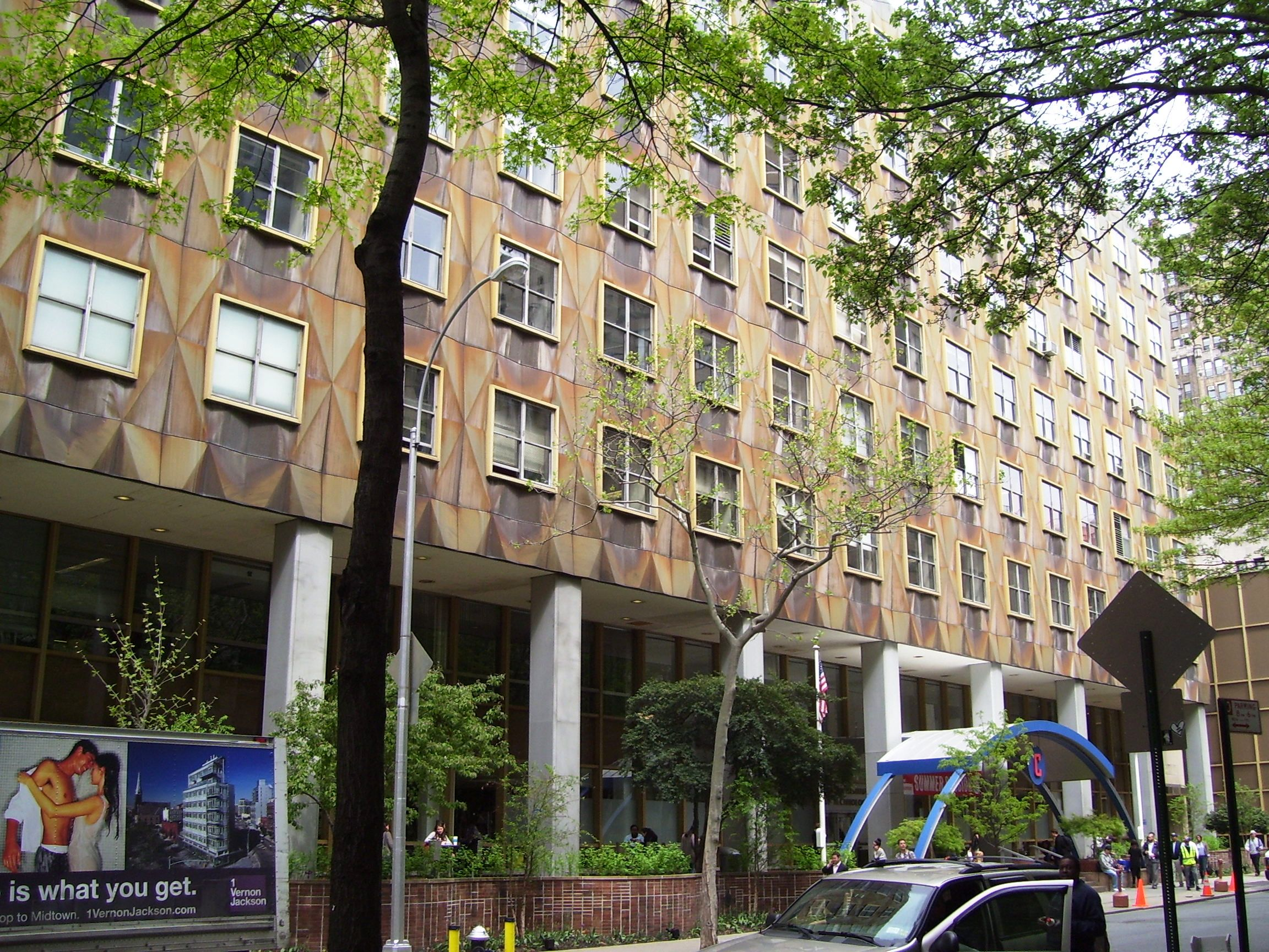 The Marvin Feldman Center of the Fashion Institute of Technology, at 243 West 27th Street between Seventh and Eighth Avenues in the Chelsea neighborhood of Manhattan, New York City, was built in 1958 and designed by DeYoung & Moscowitz. (Source: AIA Guide to NYC (4th ed.)